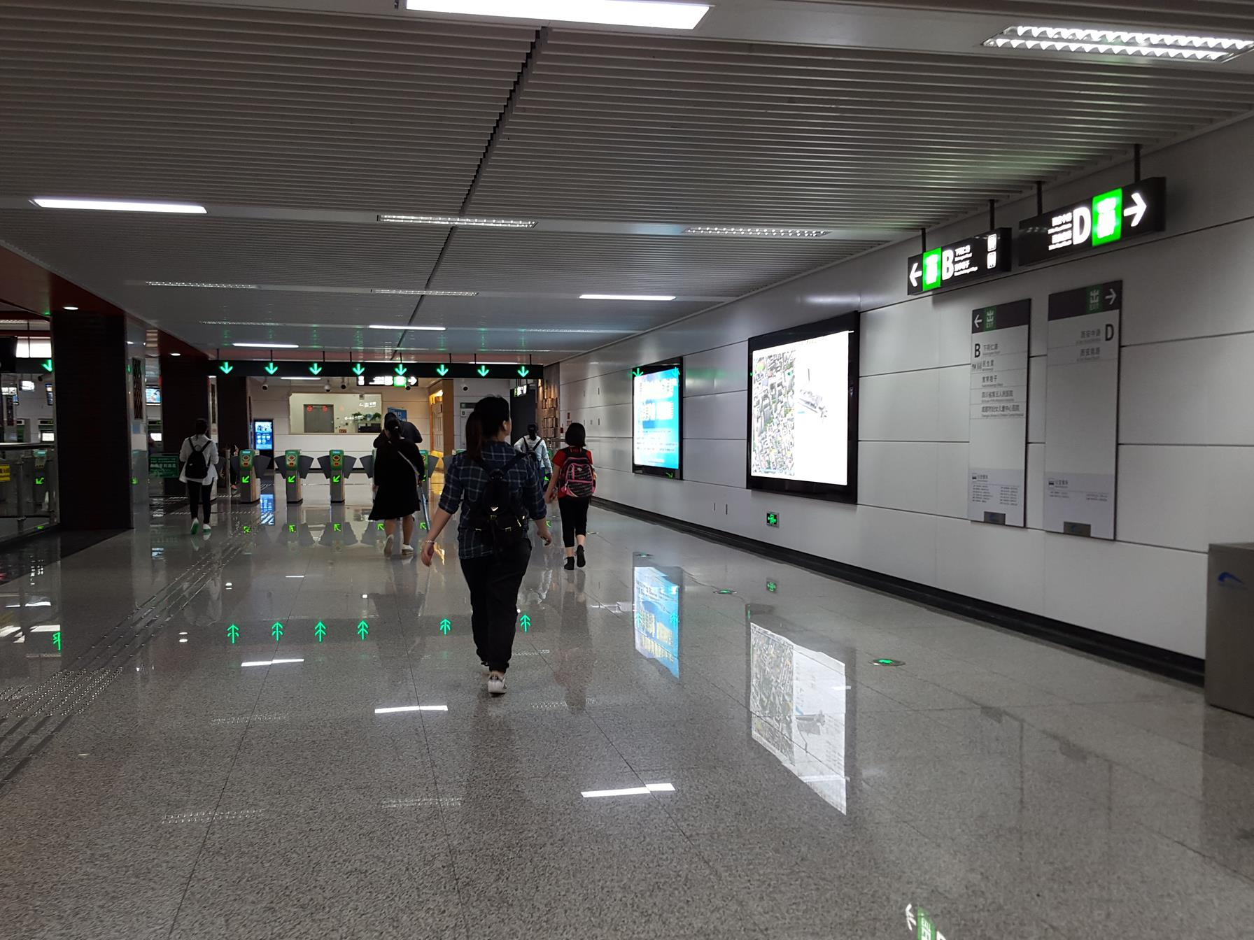 Concourse of Kuanzhaixiangzi Alleys Station, Chengdu Metro